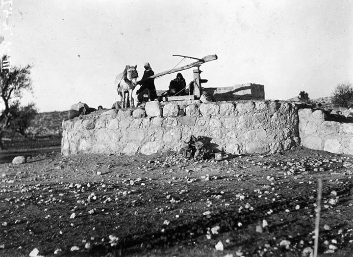 Kafka well, 1920